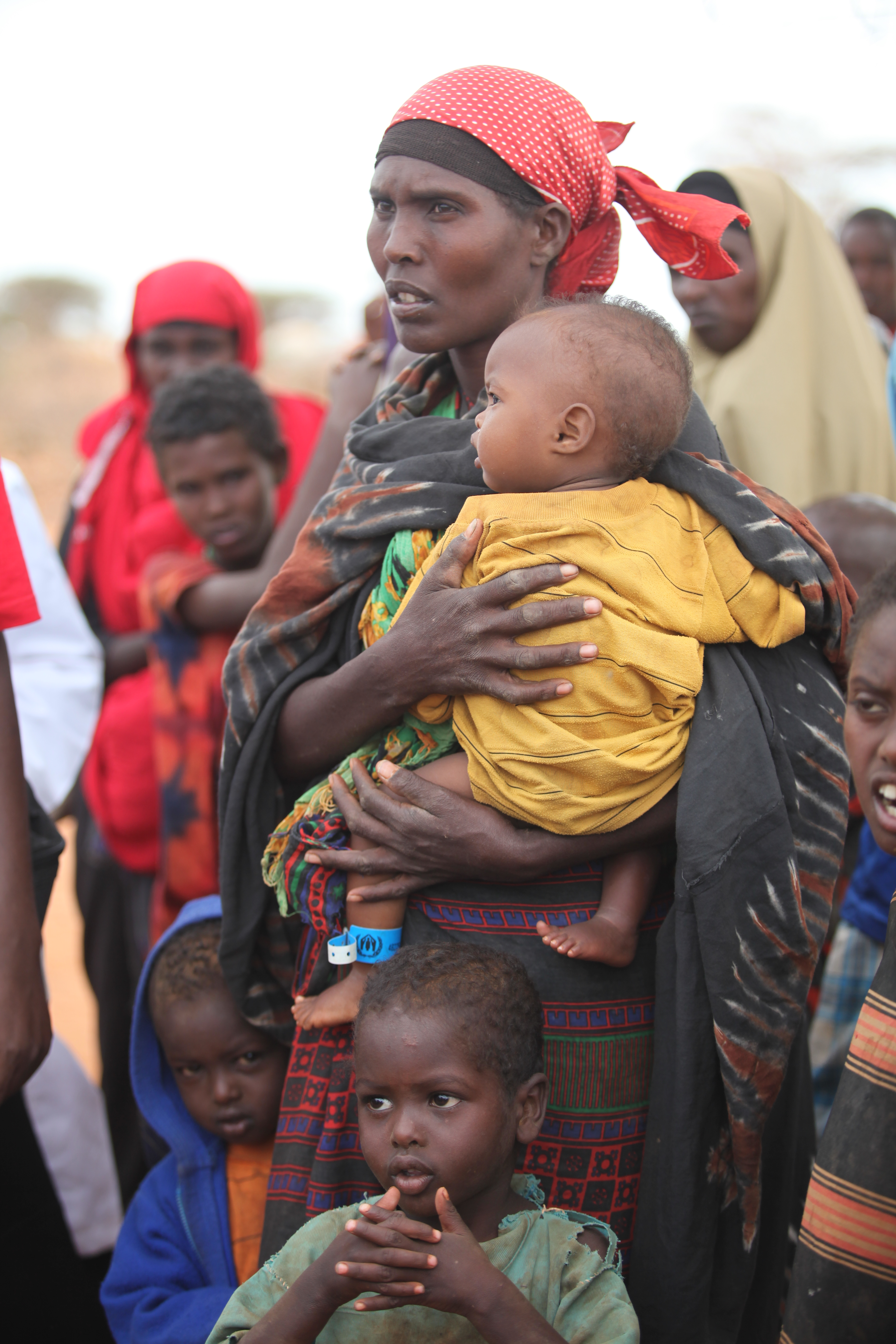 Women and children waiting to enter Dadaab camp in Kenya. One of thousands of refugee families who have recently arrived from Somalia fleeing the drought and conflict.